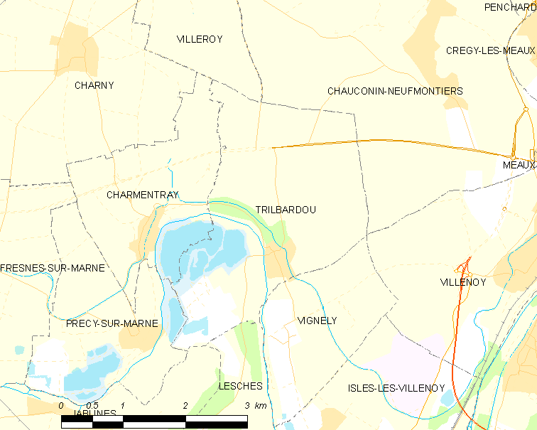 Map of French municipality Trilbardou